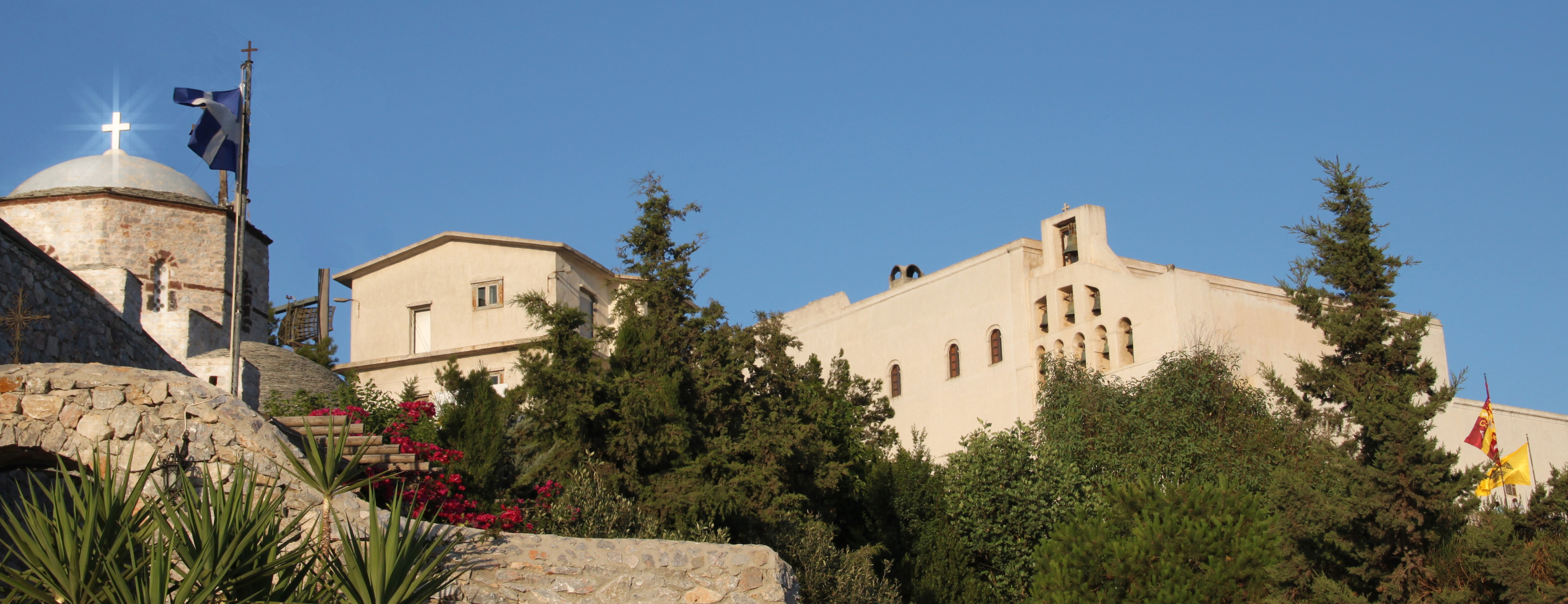 300 years Prophet Elias Monastery, Santorini